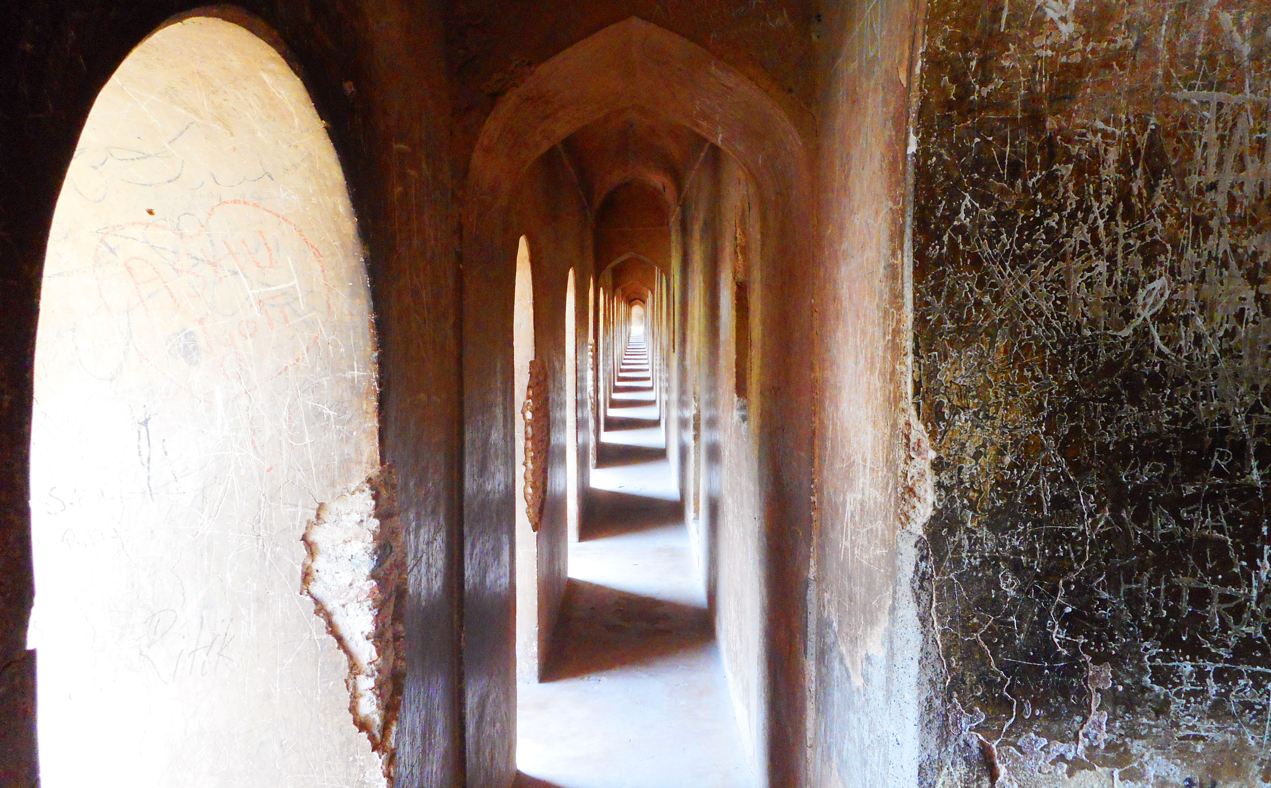 Bada Imambada is famous for its maze called 'Bhool Bhulaiyaa' in Hindi. It is built of identical 2.5 feet wide passageways like the one shown in this photograph. A true vanishing point.